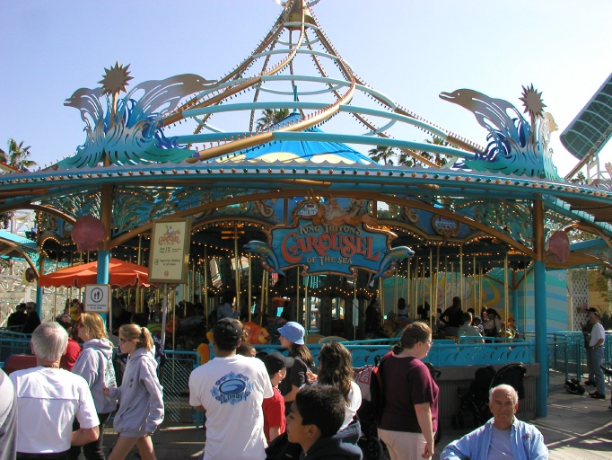 King Triton's Carousel of the Sea was at Disney California Adventure from February 8, 2001 until March 5, 2018